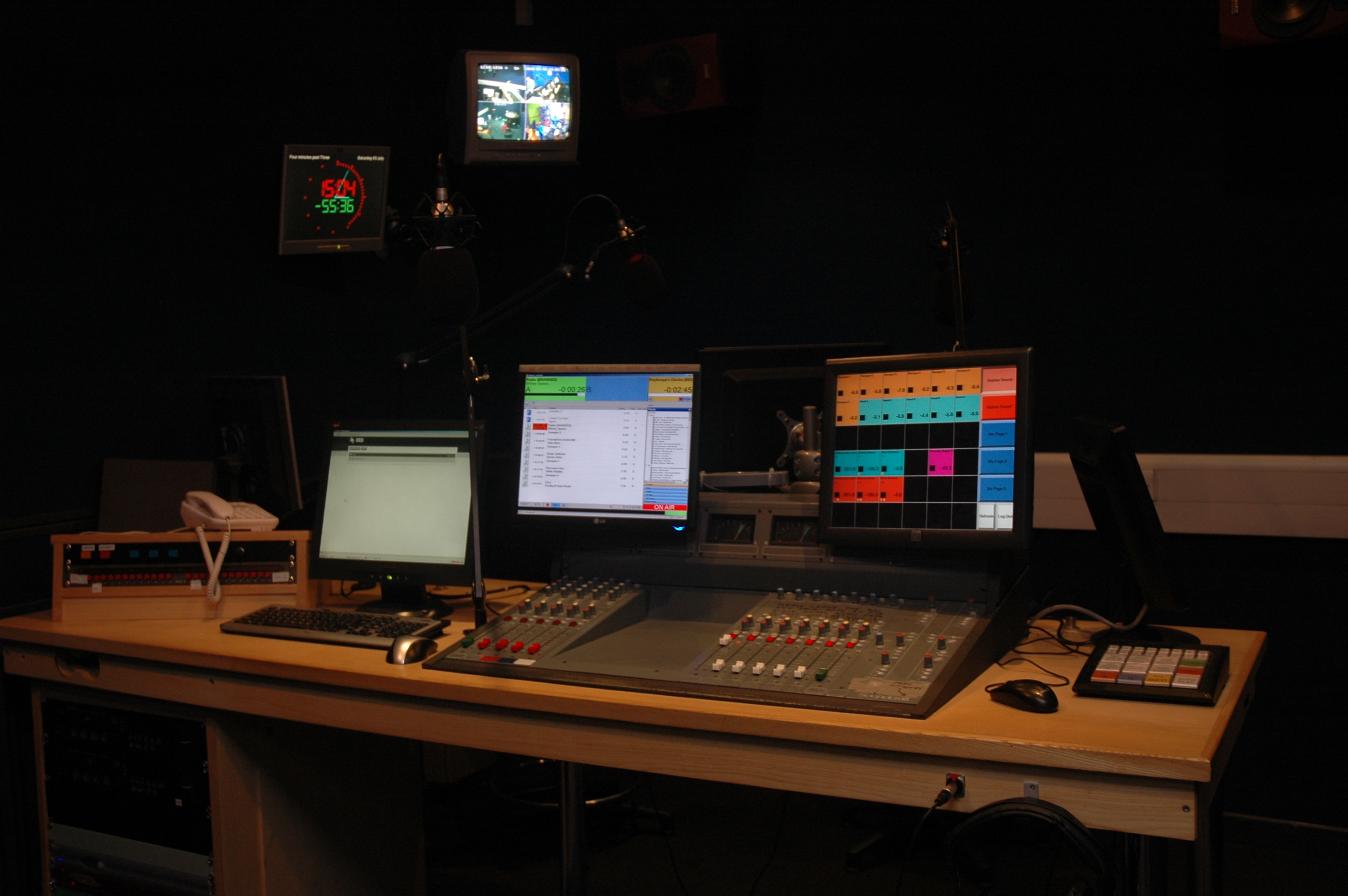 A photo showing the 2010 rennovations of University Radio Nottingham's Studio 2